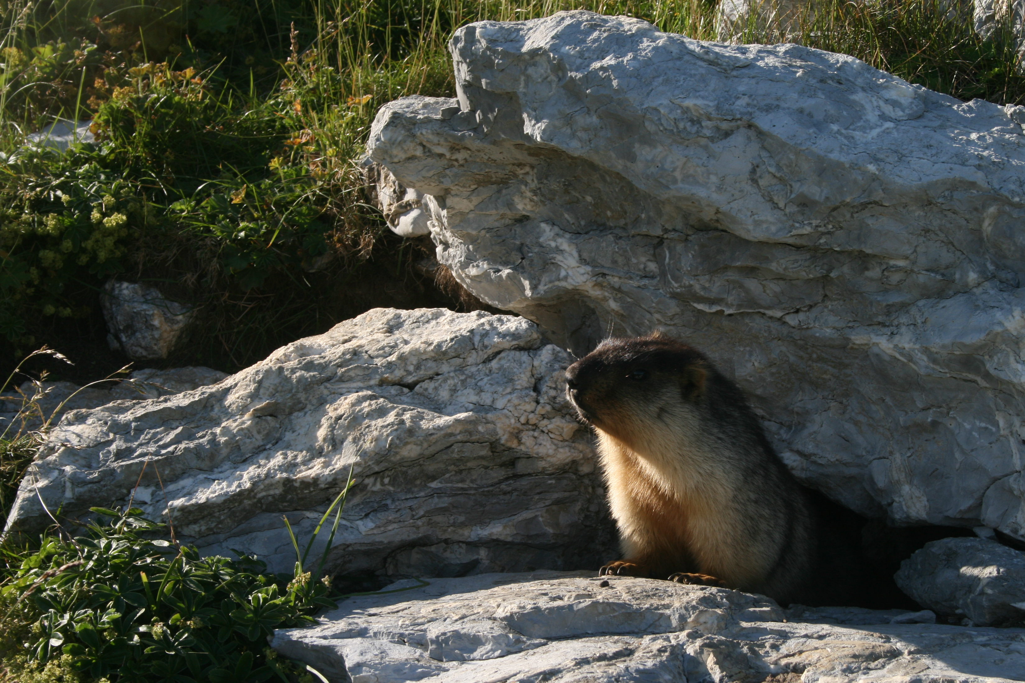 Marmota camtschatica